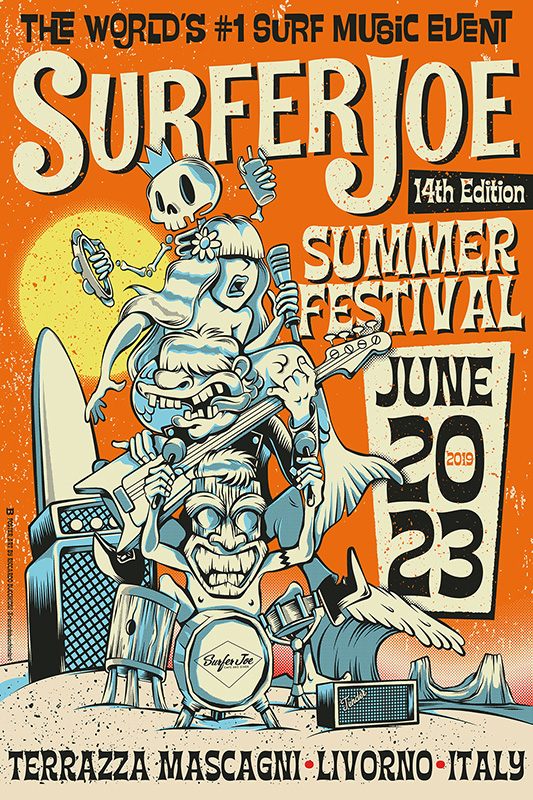 Poster of Surfer Joe Summer Festival 2019 by Riccardo Bucchioni